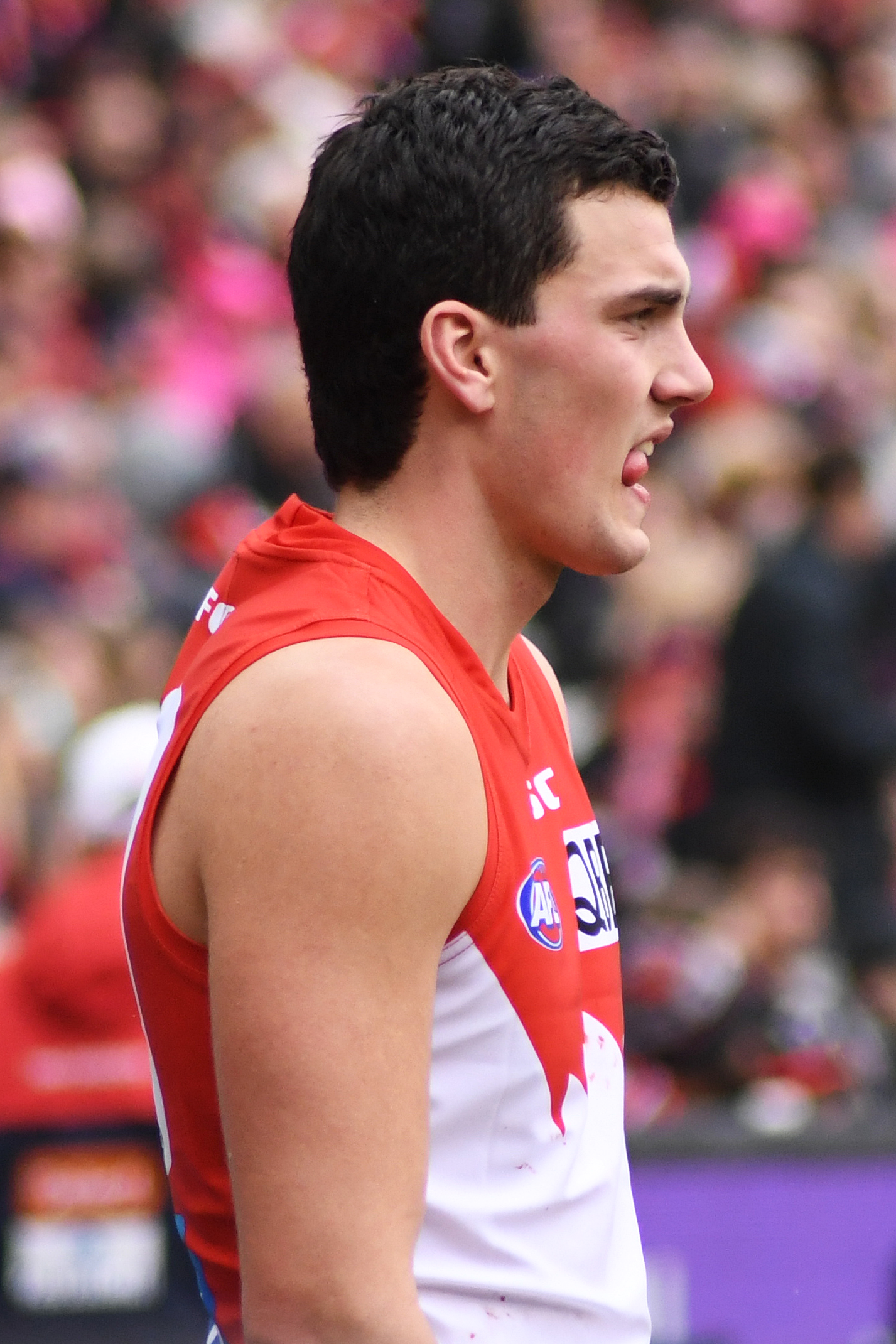 Tom McCartin of Sydney during the 2018 AFL round 21 match between Melbourne and Sydney at the Melbourne Cricket Ground on Sunday, 12 August 2018 in Melbourne, Victoria.